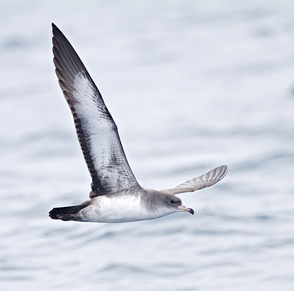 Monterey Bay Seabirds trip.